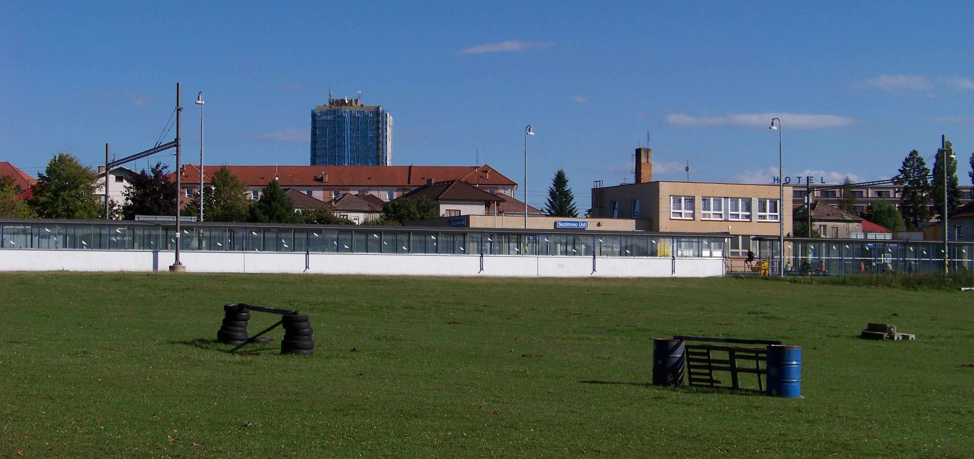 Sezimovo Ústí, Tábor District, South Bohemian Region, the Czech Republic. The train station. - OpenStreetMap(Info)